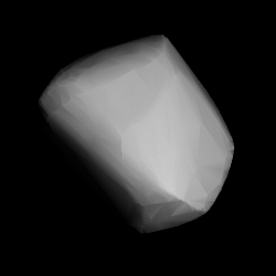 3D convex shape model of 1117 Reginita, computed using light curve inversion techniques. J. Hanuš, J. Ďurech, M. Brož, B. D. Warner (June 2011). "A study of asteroid pole-latitude distribution based on an extended set of shape models derived by the lightcurve inversion method". Astronomy and Astrophysics 530: A134. ISSN 0004-6361. arXiv